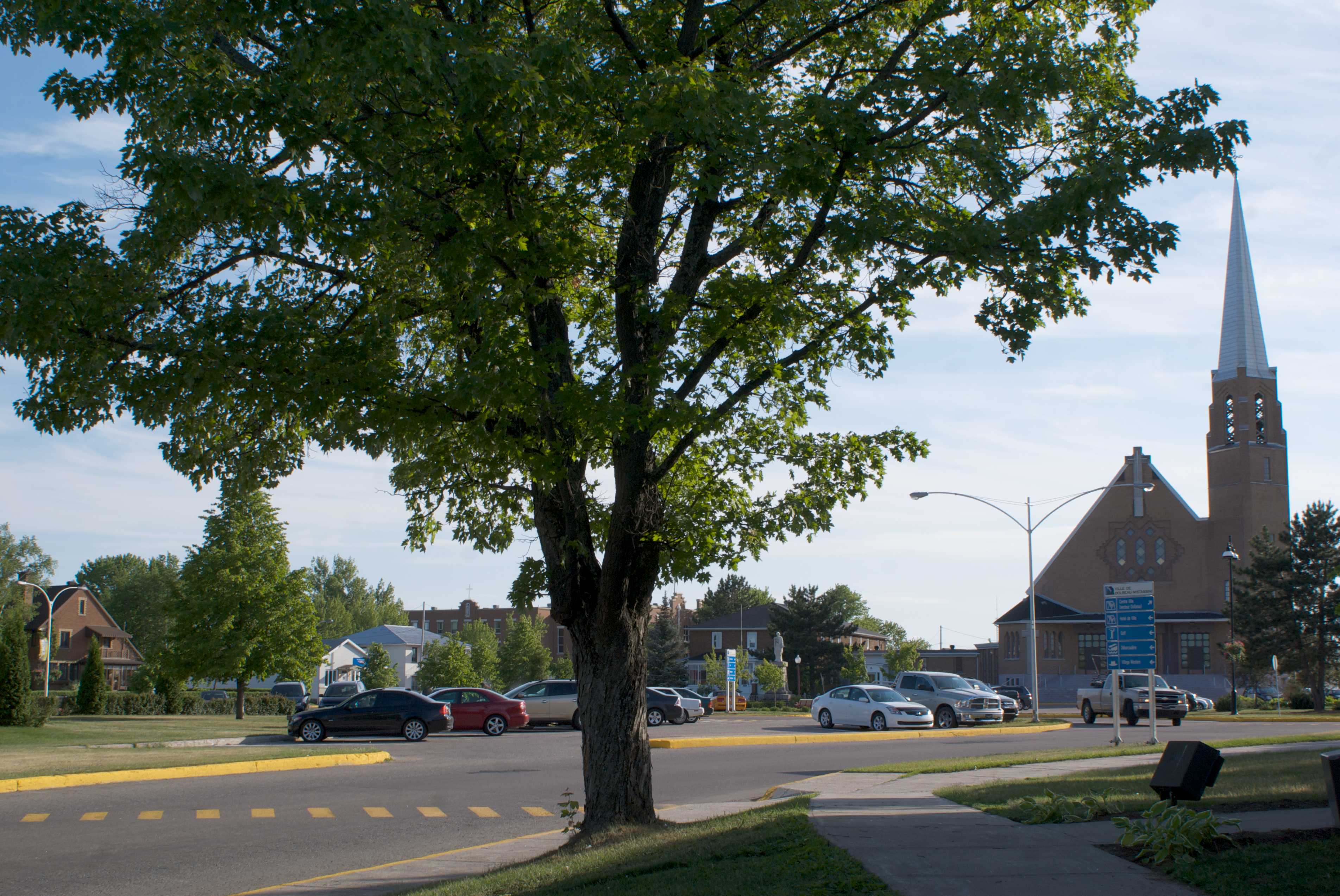 Downtown of Dolbeau-Mistassini, Quebec